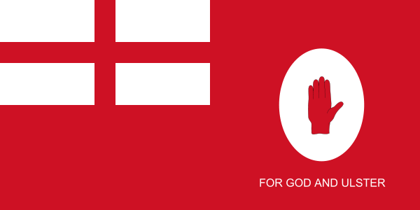 A flag allegedly used by Ulster loyalists in Northern Ireland.